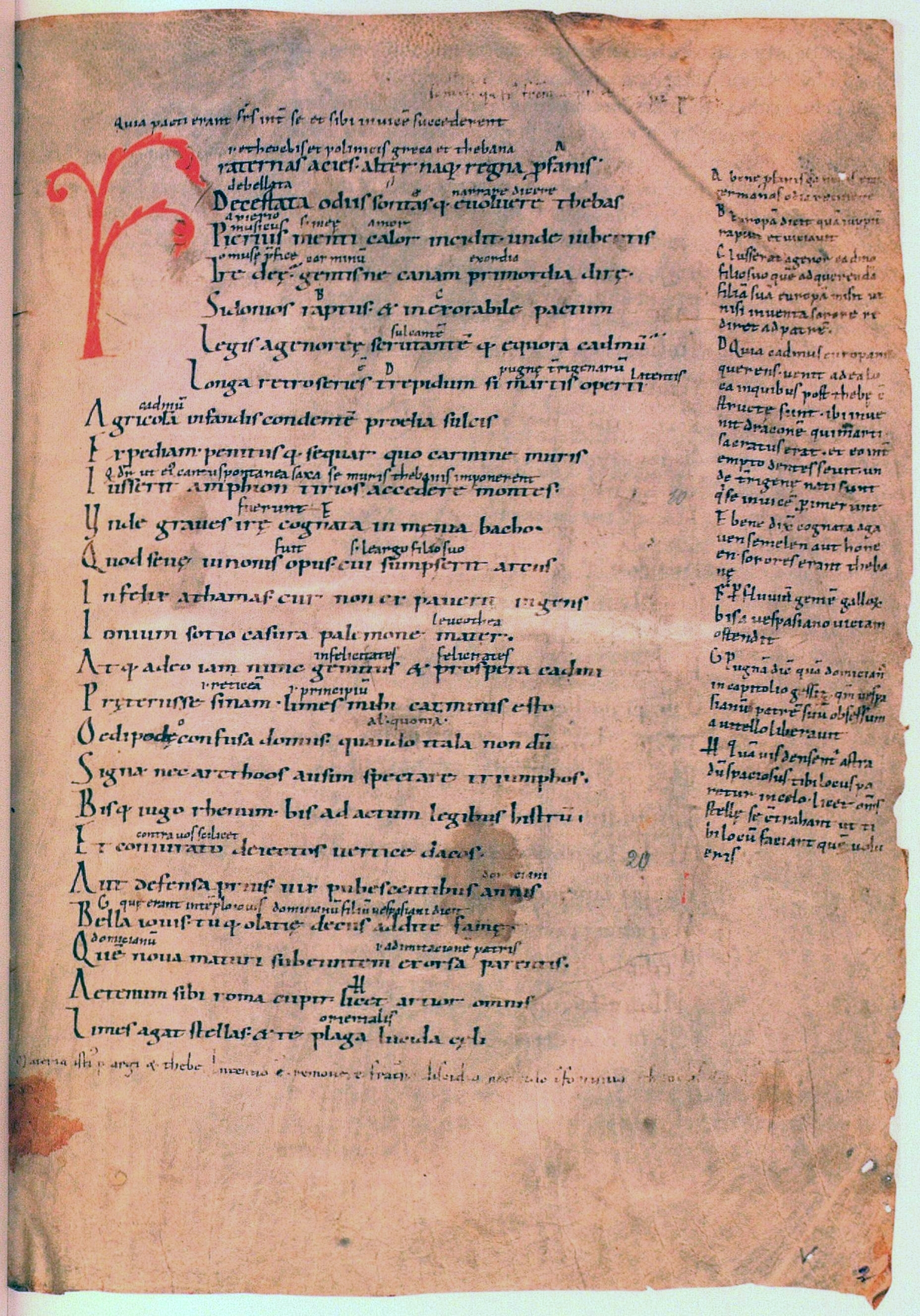 The beginning of the “Thebaid” in a manuscript from the Abbey of Saint Gall. Manuscript: Zürich, Zentralbibliothek, Ms. C 62, fol. 2r. Annotations by the monks between the lines.